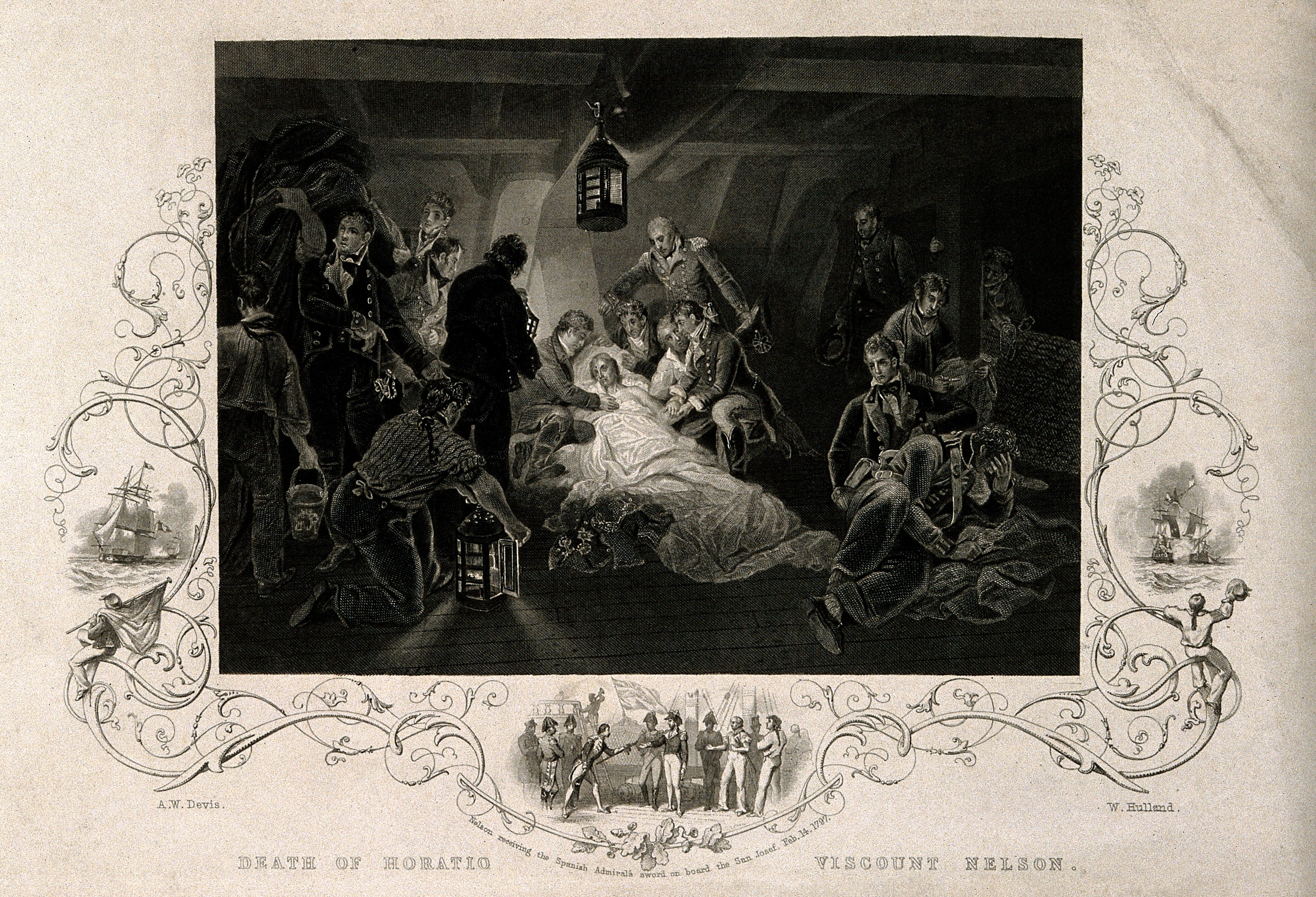 The death of Lord Nelson on the quarter deck aboard HMS Victory at the battle of Trafalgar. Engraving by W. Hulland after A. Devis, 1807. Iconographic Collections Keywords: J. Beatty; Horatio Nelson; Arthur William Devis; William T. Hulland